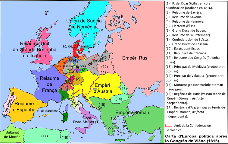 European political map after the Congress of Vienna in 1815.